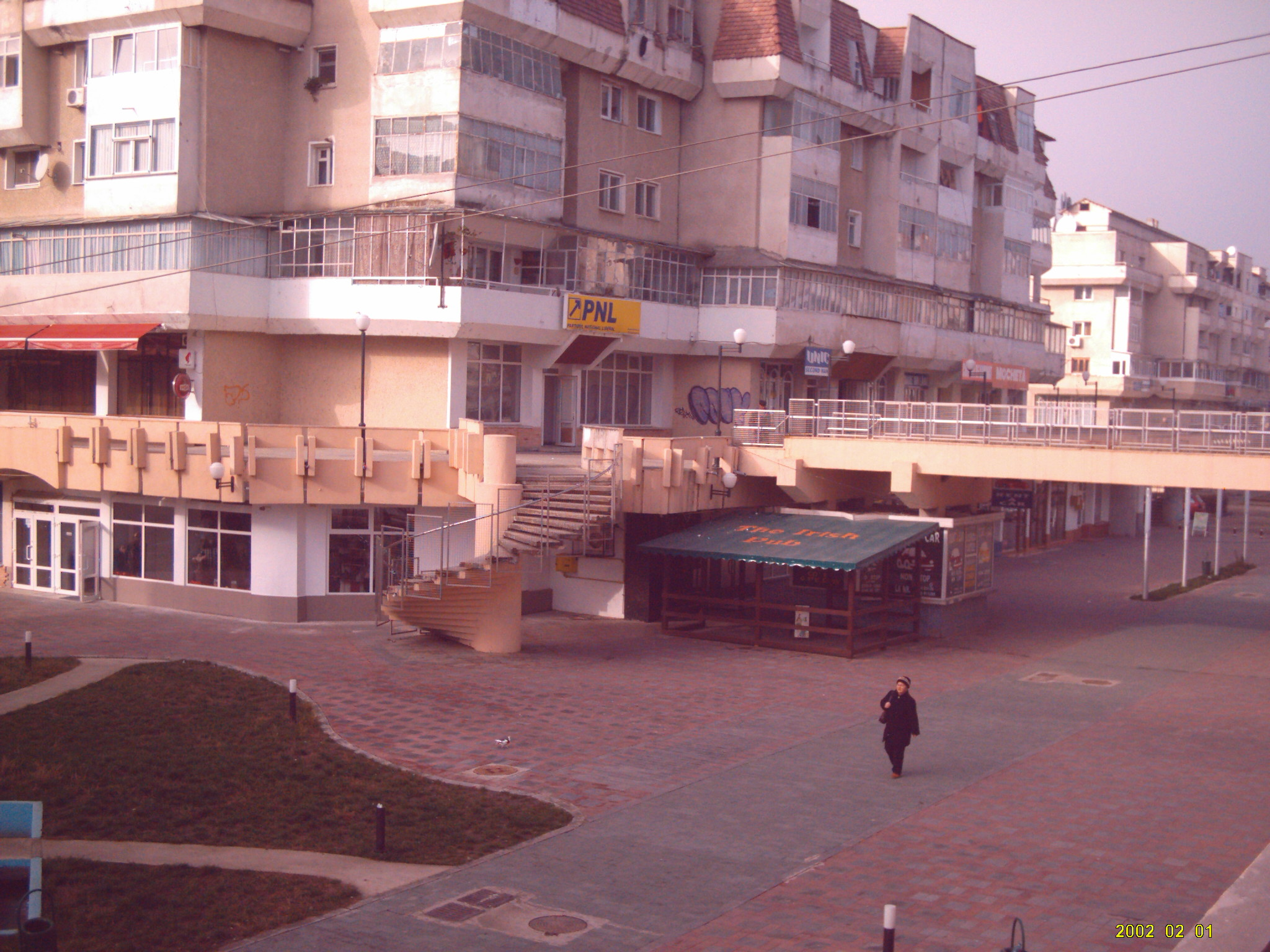 pietonal ştefan cel mare